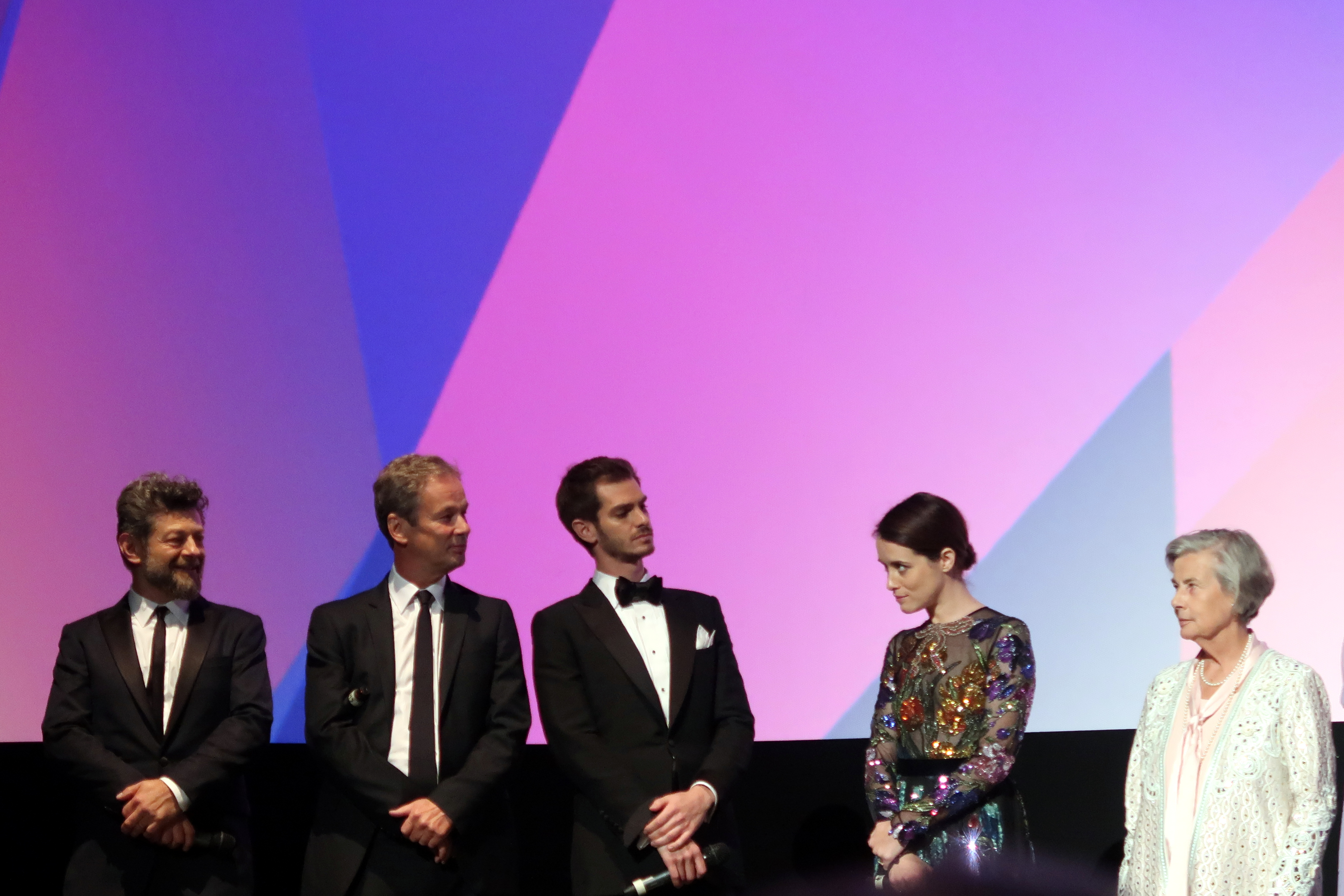 Andy Serkis, Jonathan Cavendish, Andrew Garfield, Claire Foy and Diana Cavendish at the Breathe premiere